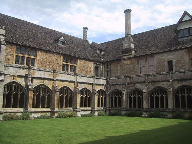 Cloisters at Lacock Abbey